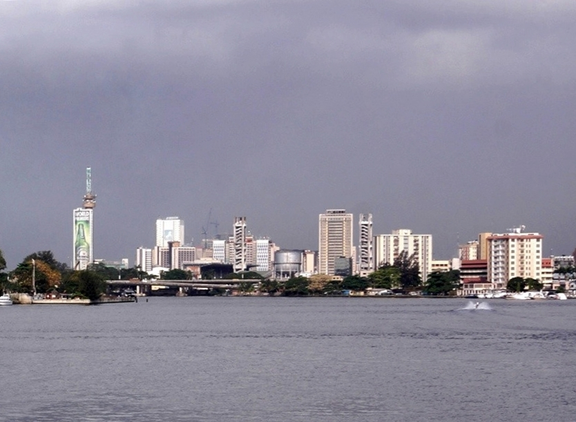 Lagos, Nigeria.